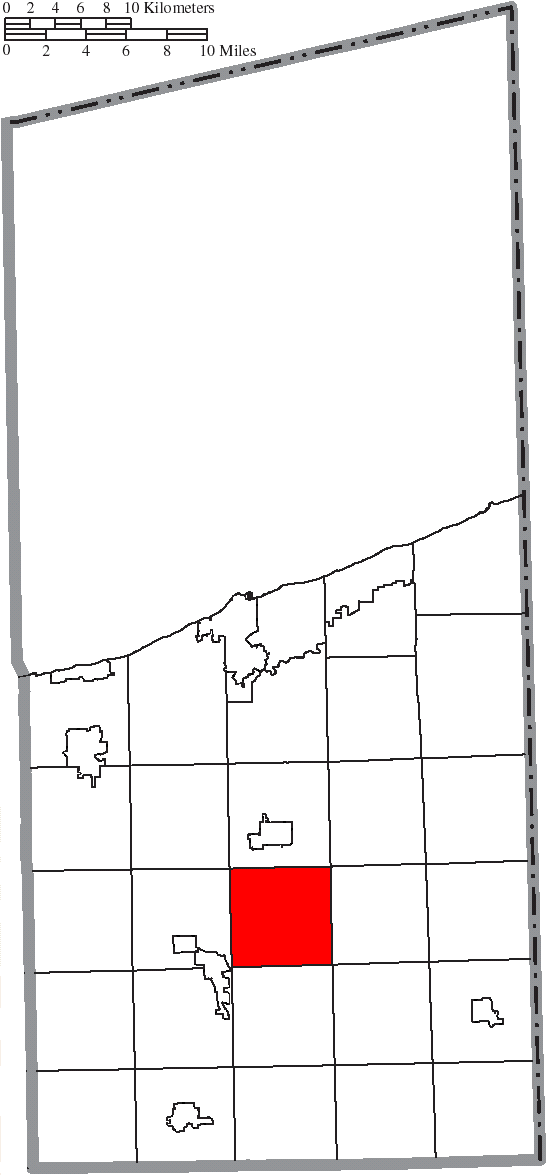 Map of the municipal and township boundaries of Ashtabula County, Ohio, United States, as of the 2000 census, with the location of Lenox Township highlighted. Township borders are shown only in unincorporated areas in order to differentiate incorporated and unincorporated areas more clearly.